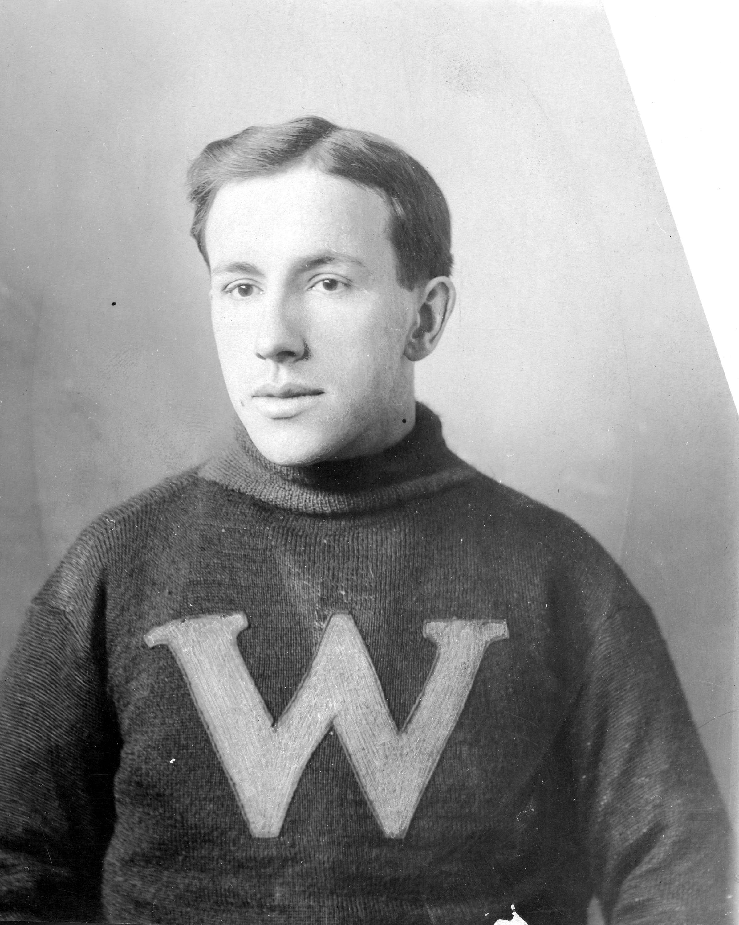 Photograph of ice hockey player Harry Hyland, New Westminster Hockey Team Champions P.C.H.A.